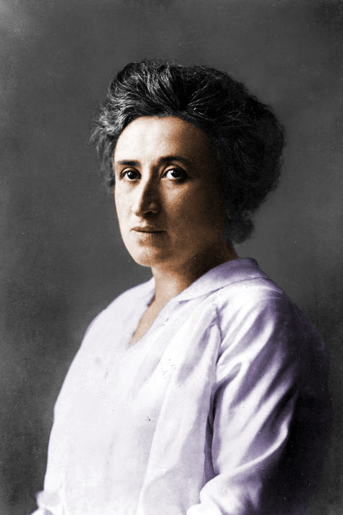 Rosa Luxemburg colorized photo.